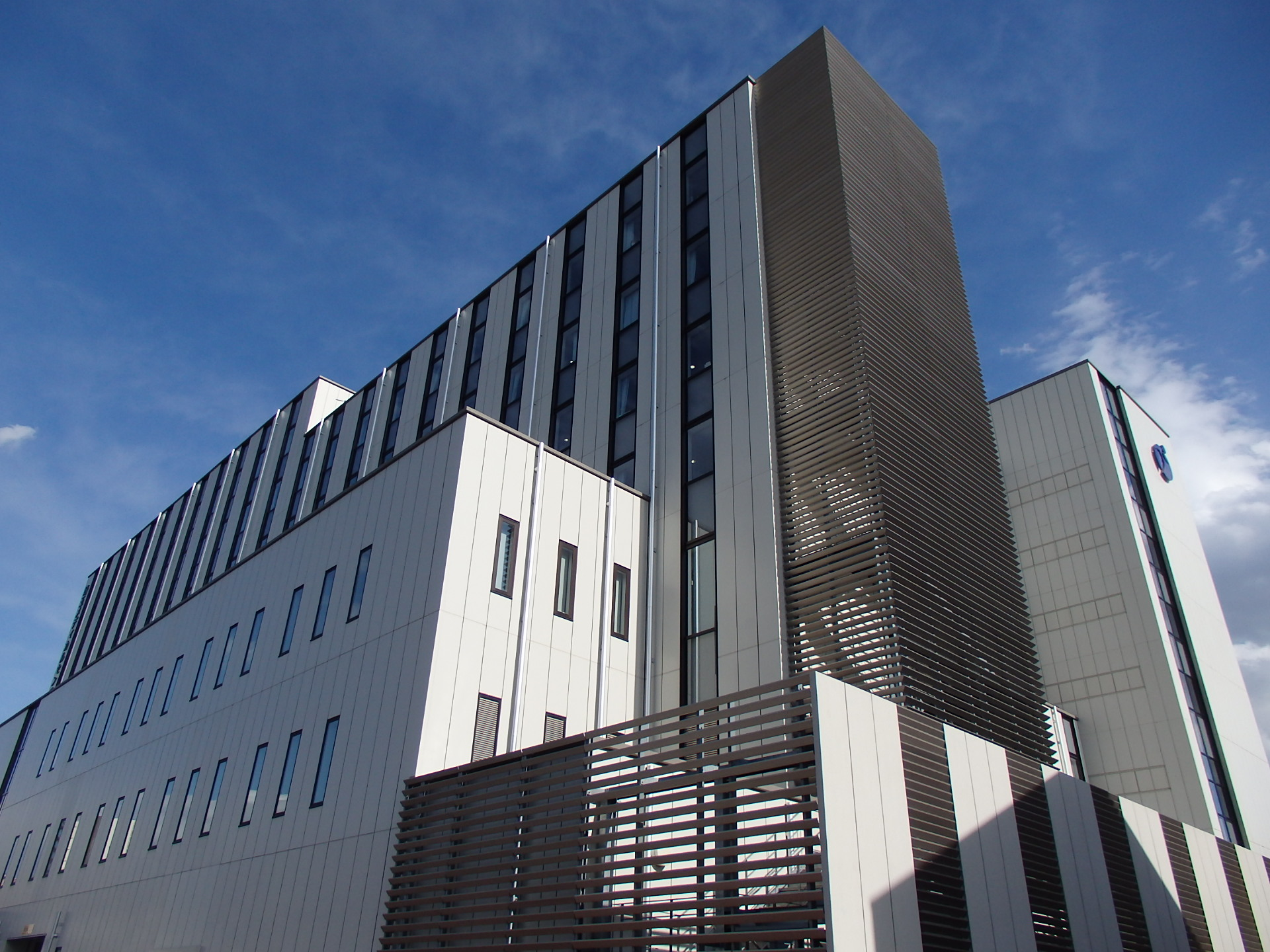 Saitama Medical Center seen from the north